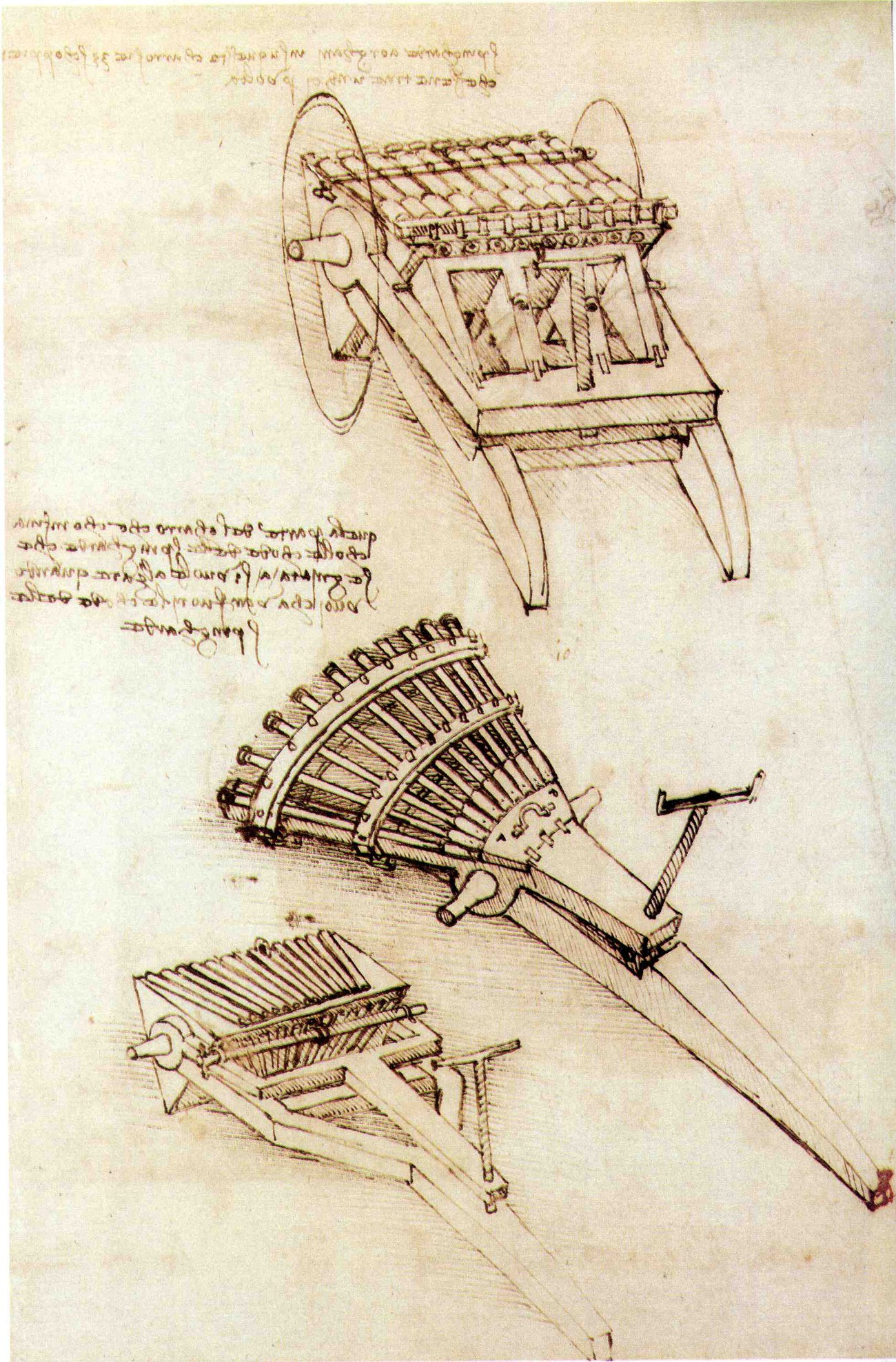 Ribauldequin (or organ gun), 15th century, studies from Leonardo da Vinci.